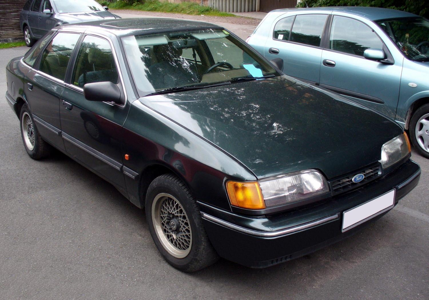 Ford Scorpio